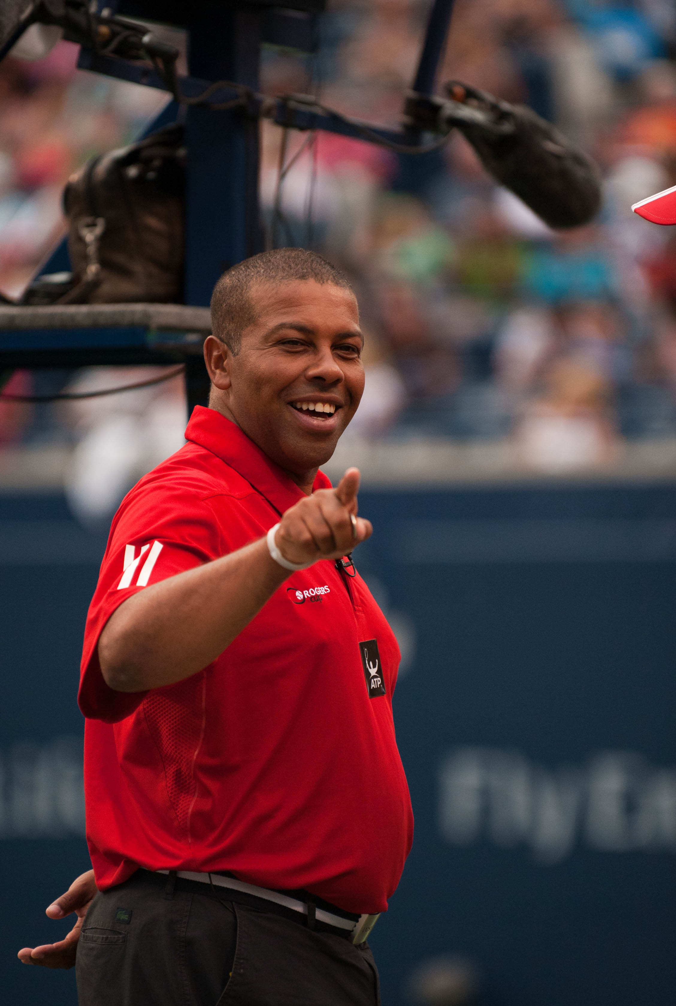 Carlos Bernardes at the 2010 Rogers Cup.